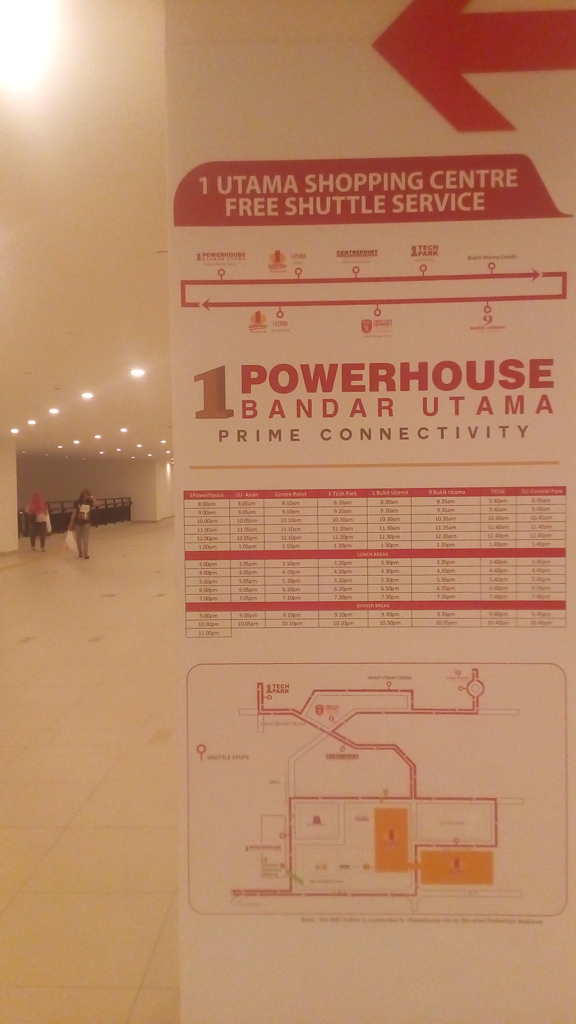 This banner show a route about Free Shuttle in Bandar Utama